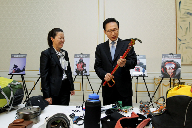 Oh Eun-sun, the first woman to climb all 14 peaks above 8,000 m in the Himalayas, visits Cheong Wa Dae and met President Lee Myung-bak on May13, 2010. She explains climbing gear that she used on her ascent of Annapurna.